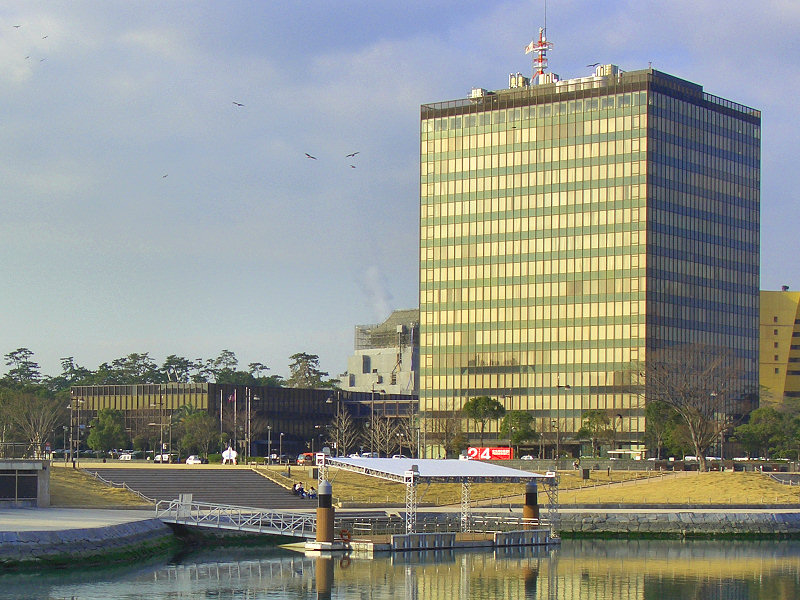 Kitakyushu City Hall in Fukuoka Prefecture, Japan